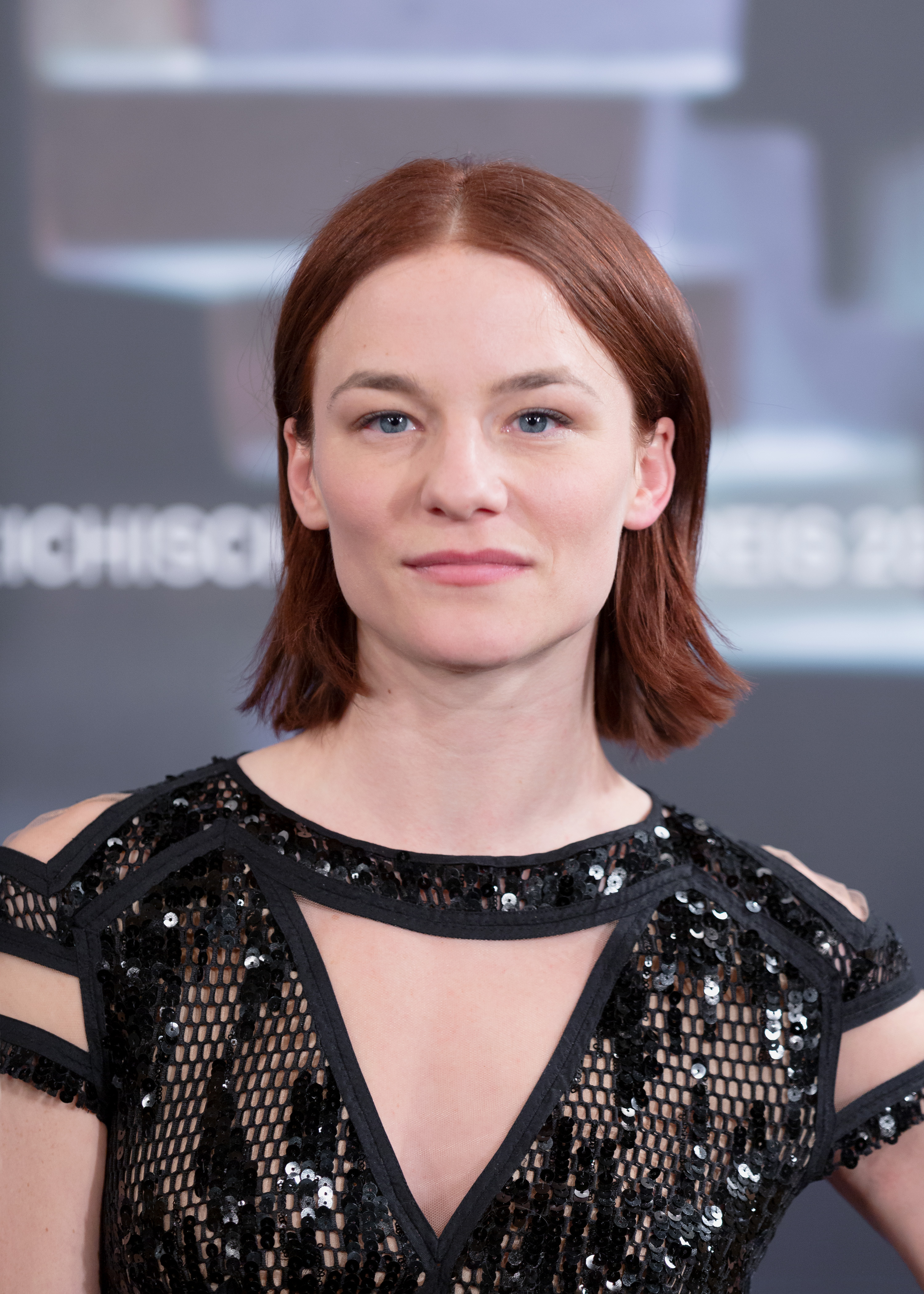 Valerie Pachner ("The Ground beneath my Feet"), photo call at the Austrian Film Awards 2019 (Rathaus, Vienna,Austria).